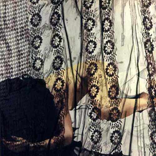 Painting by Gretta Sarfaty Marchant, 1981